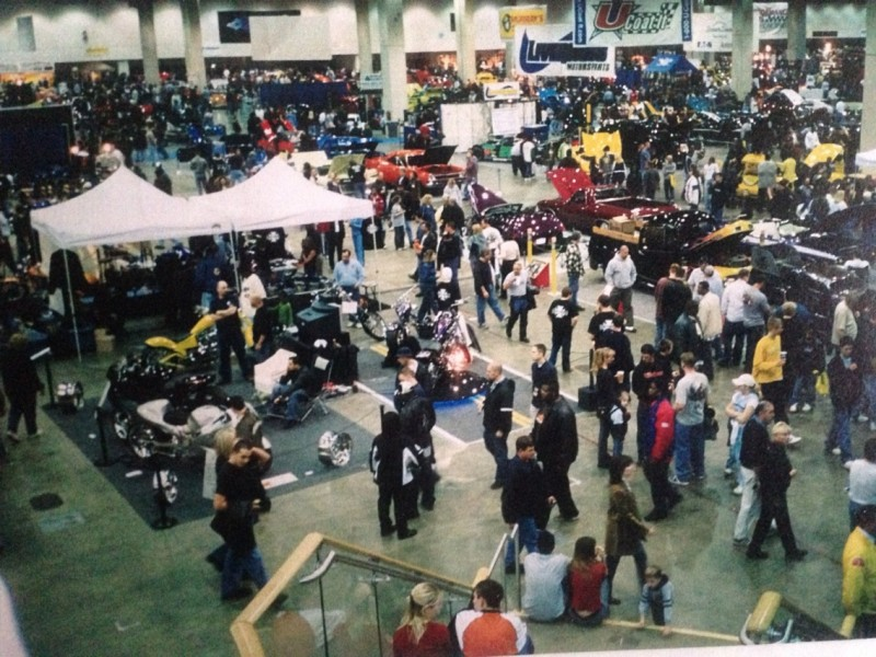 Looking down on the crowd during the 52nd Annual Detroit Autorama, which was held in February 2004.